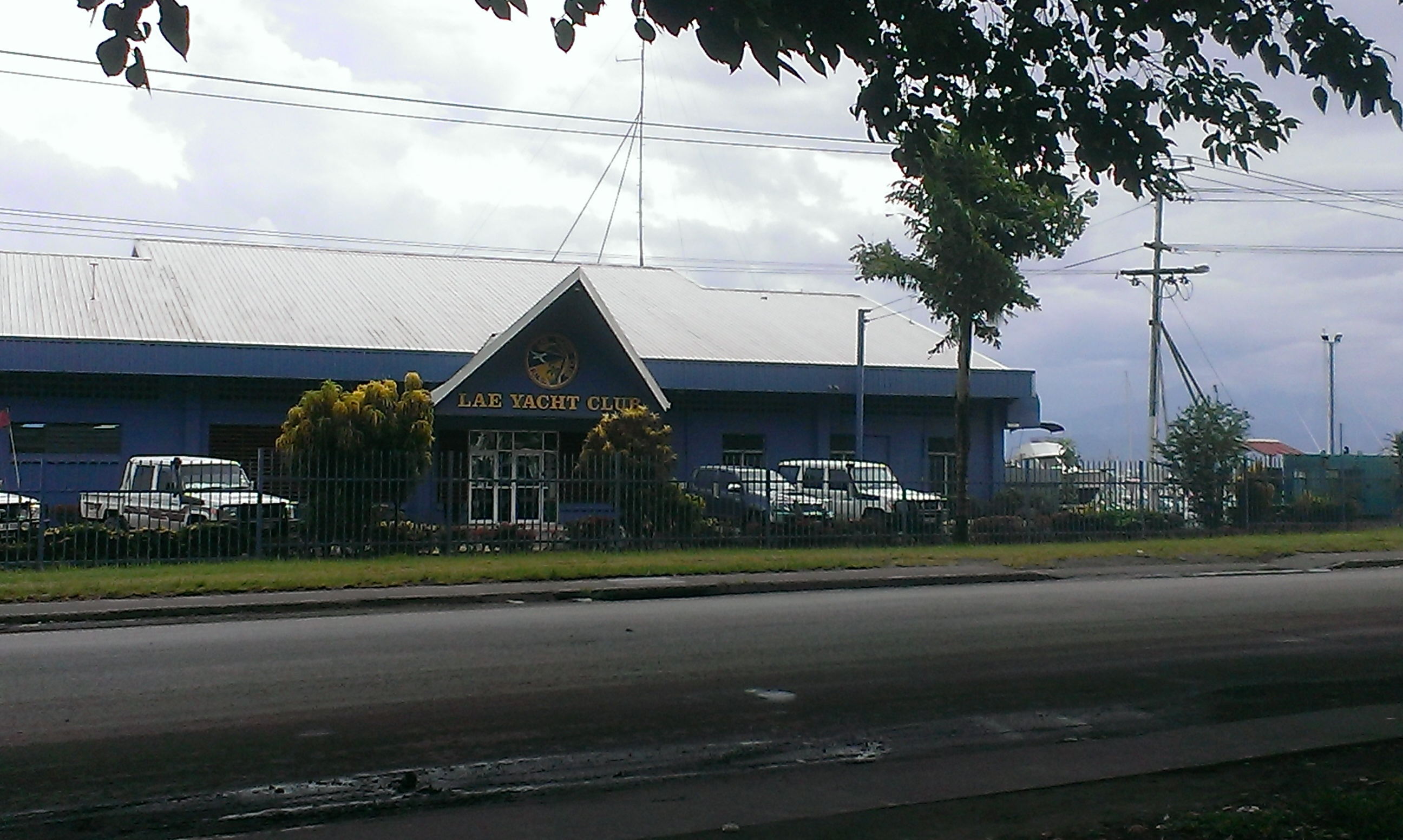 Photo of Lae Yacht club. Taken 7 Jan 2014. Taken with an HTC phone camera.